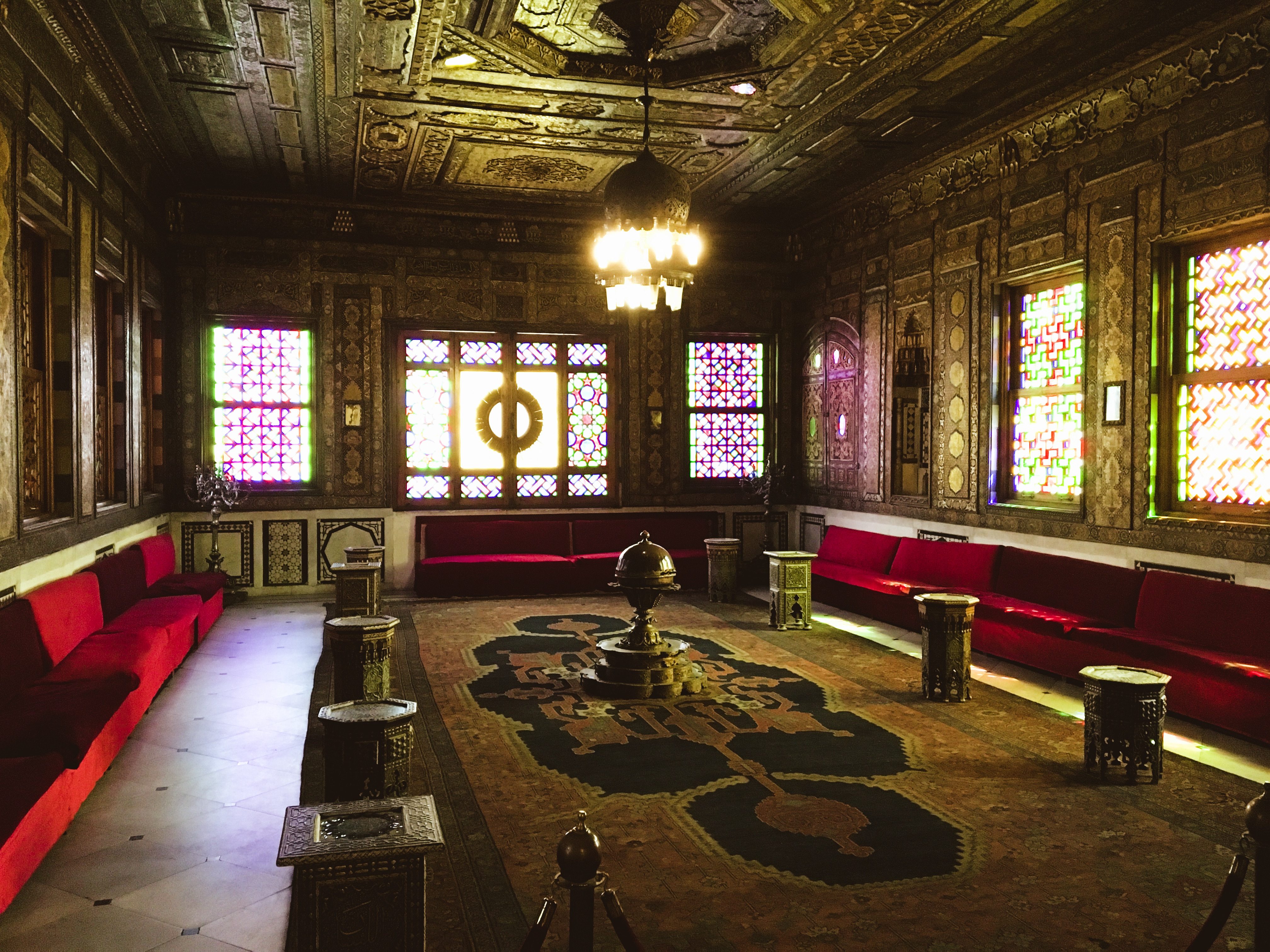 Mohammad Ali Tawfik Palace, Al-Manyal, Cairo. Egypt.